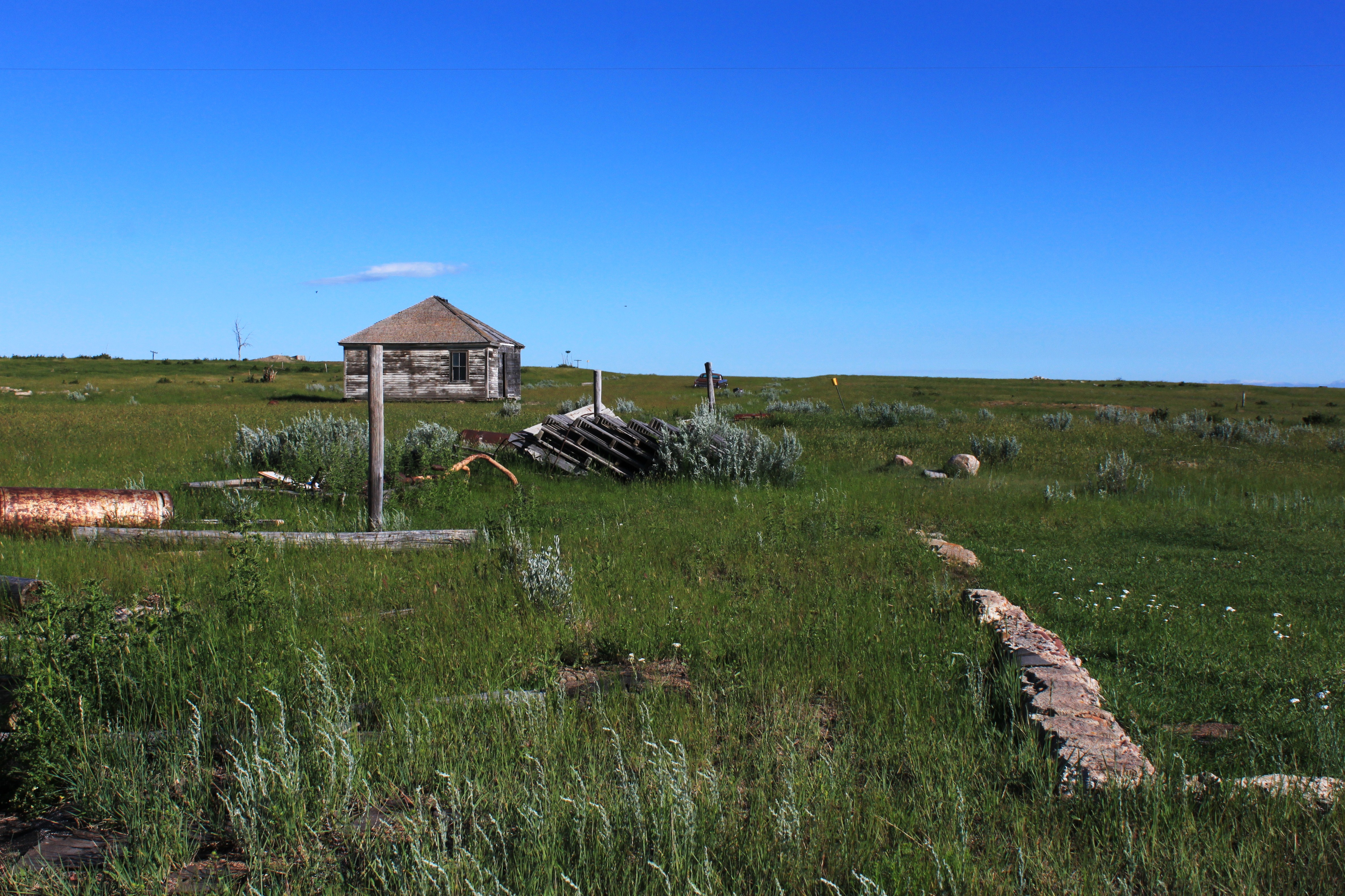 What is left of the former village of Vidora, Saskatchewan's main street in 2010.